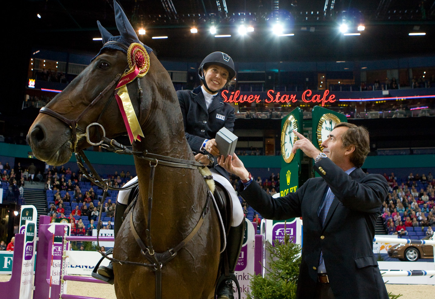 Noora Forsten with Quinault at Helsinki Grand Prix price giving